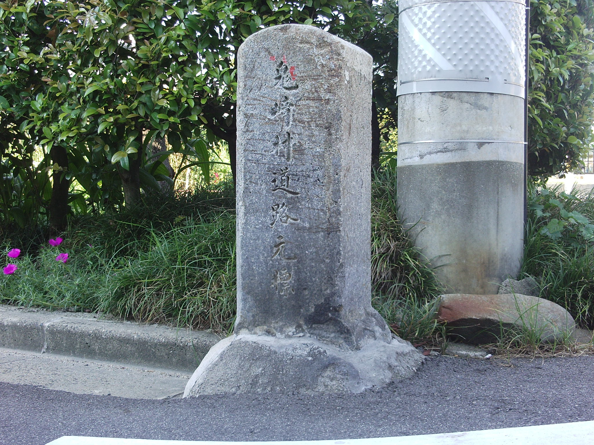 Kilometre zero of Onizaki village. (Onizaki village, Chita-gun, Aichi.)